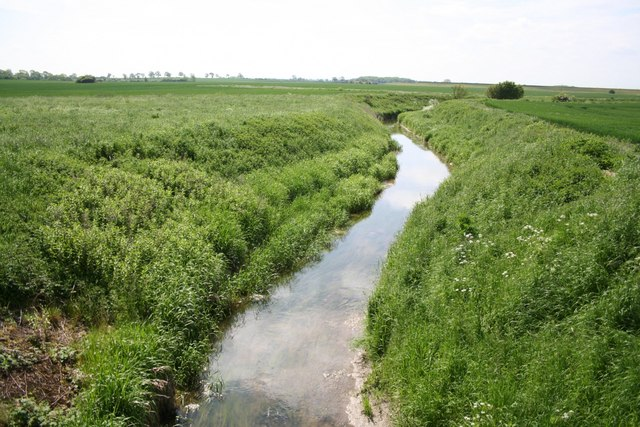 River Ancholme. The infant River Ancholme from Pitford Bridge